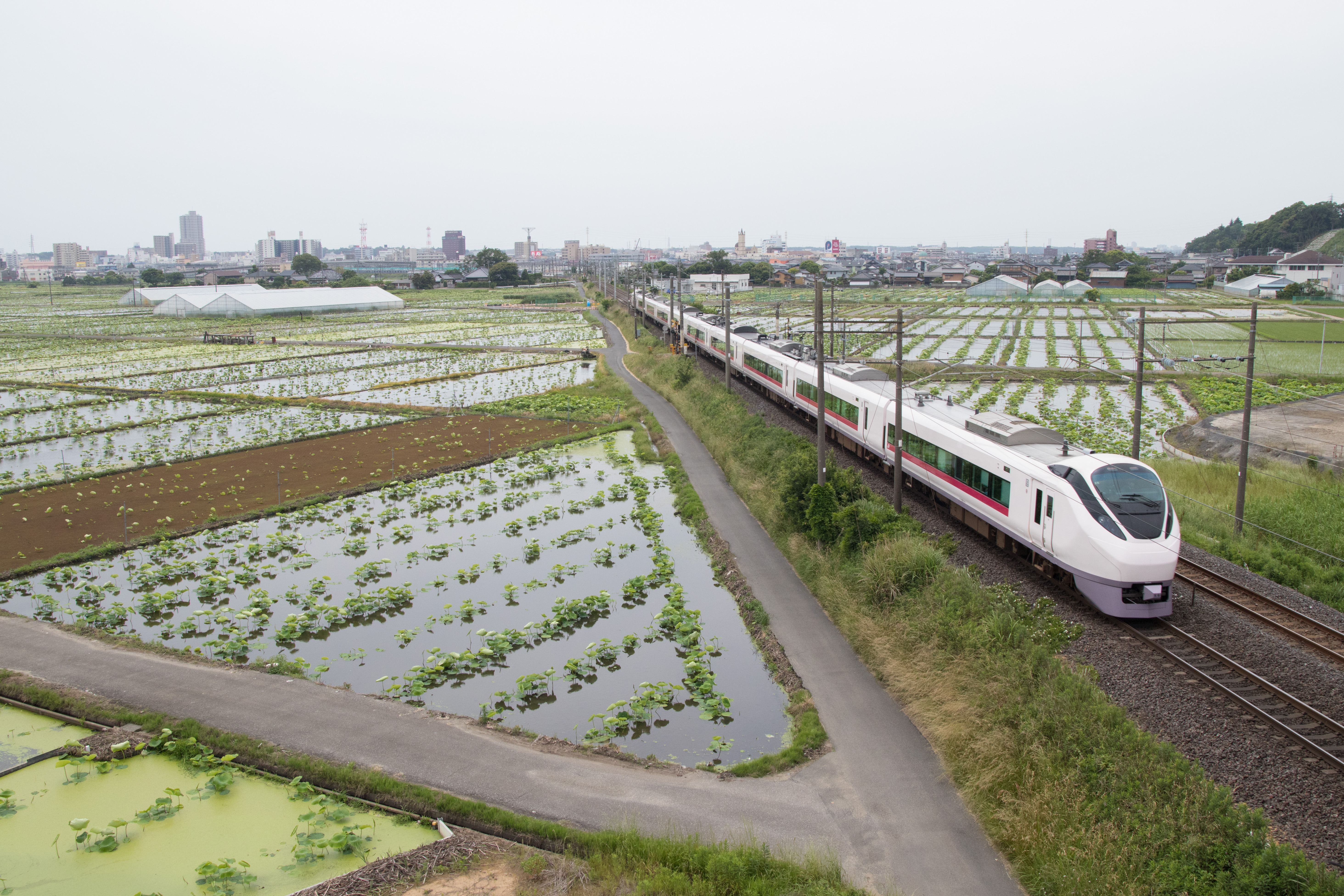 JR East E657 series train on the Joban Line in Tsuchiura, Ibaraki Prefecture, Japan